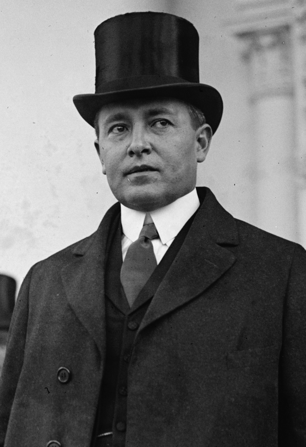 Luis Bogran, president of Honduras